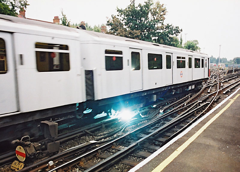 The London Underground uses a 4-rail system in which the electrical return is isolated from the running rails (the rails used by the train's wheels). The arc seen here on a District Line D Stock leaving Ealing Common Station are quite normal and occur when the electric power collection "shoes" of a train that is motoring (i.e. drawing power) reach the end of a section of electric power rail.